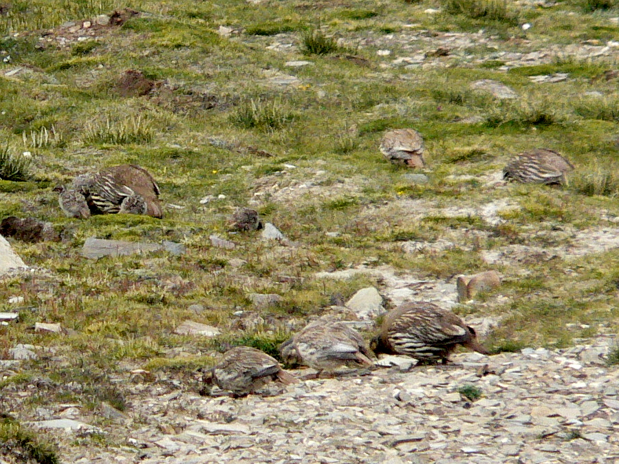 Tibetan Snowcock (Tetraogallus tibetanus) adults and young foraging, Ladakh, India